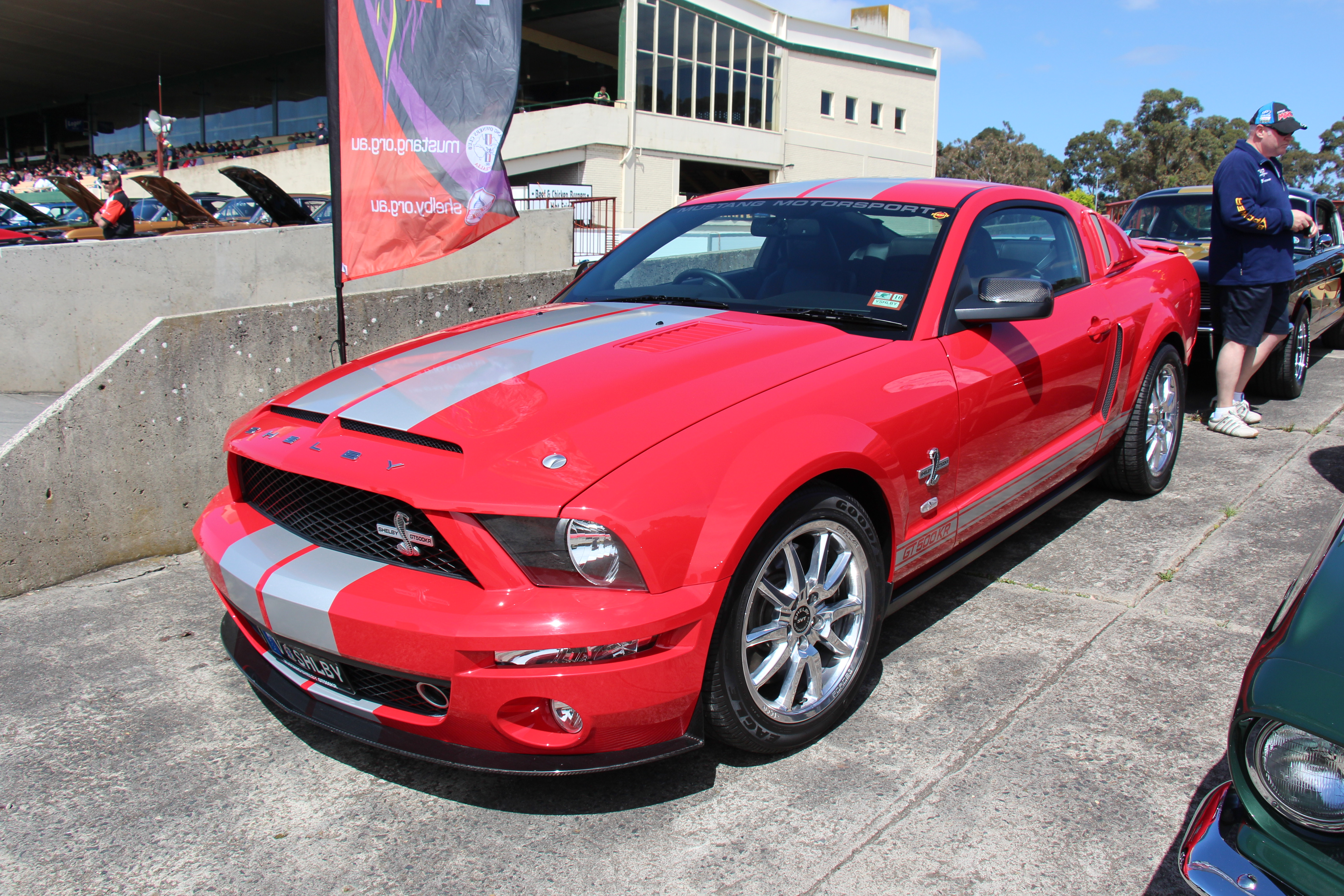 Torch Red. The fifth generation began with the 2005 model year, and received a facelift in 2010 and again in 2013. The styling was influenced by the 1st generation Mustangs, headlights set back from the grille like the 67, 68 and the fastback roofline like the 65, 66. In 2007, Ford's Special Vehicle Team launched Shelby GT500, it got the supercharged 5.4 L 32-valve DOHC V8 engine with an iron block and aluminum heads and is rated at 500 hp. Also available in 2008 was the GT500KR reminiscent of the 1968 King of the Road, with 540hp.